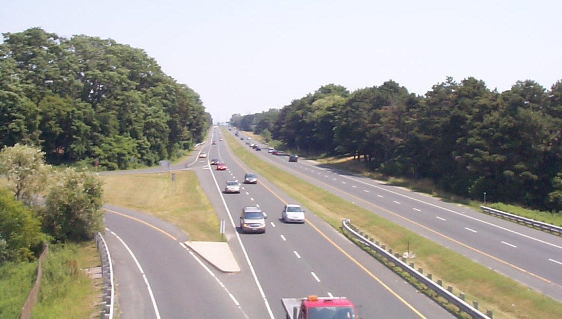 Highway 2A at the Highland Creek Overpass in Toronto On